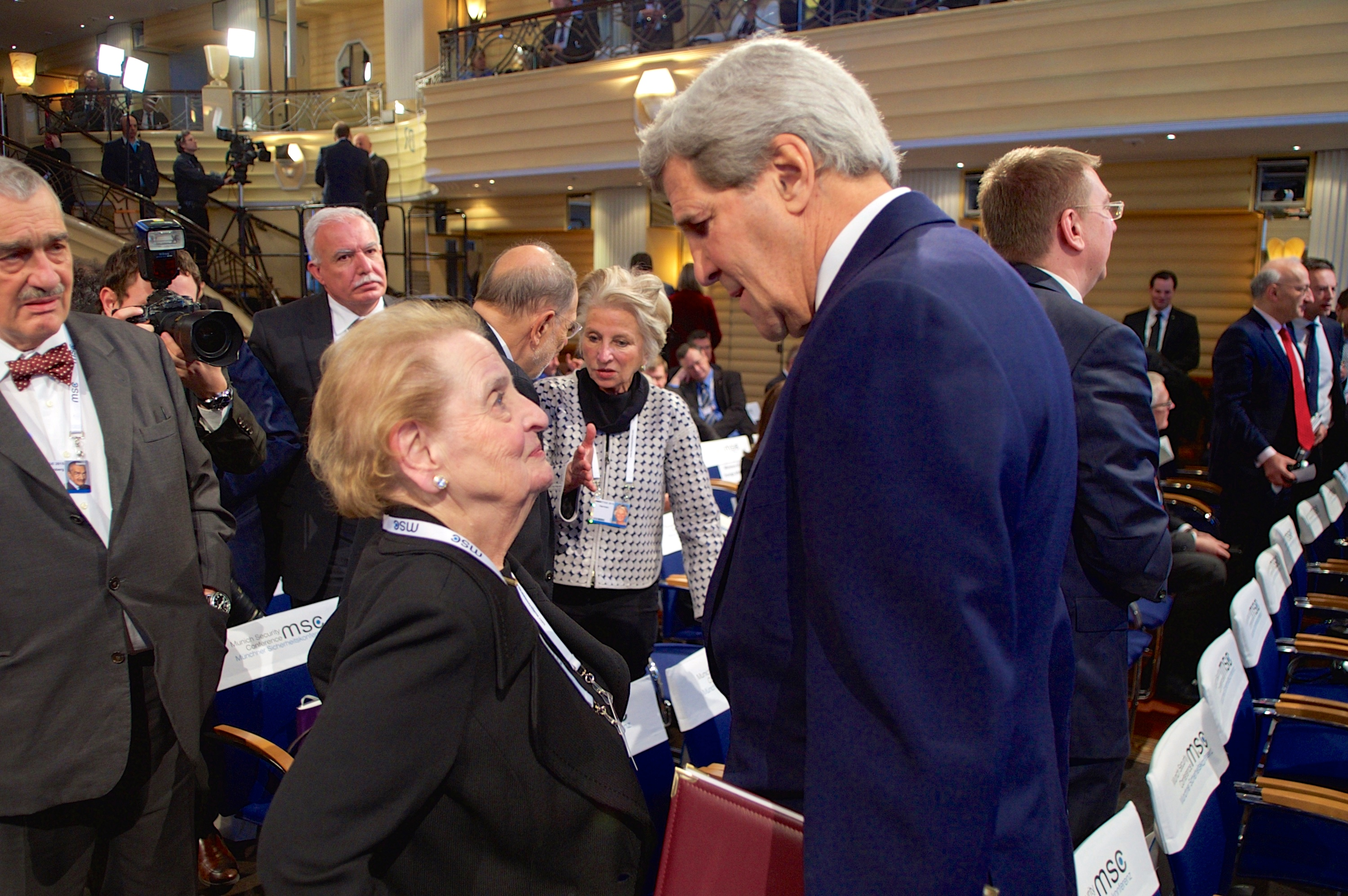 U.S. Secretary of State John Kerry speaks with one of his predecessors, former Secretary of State Madeleine Albright, on February 8, 2015, before he makes remarks and participates in a panel discussion with French Foreign Minister Laurent Fabius and German Foreign Minister Frank-Walter Steinmeier at the Munich Security Conference in Munich, Germany.[State Department photo/ Public Domain]